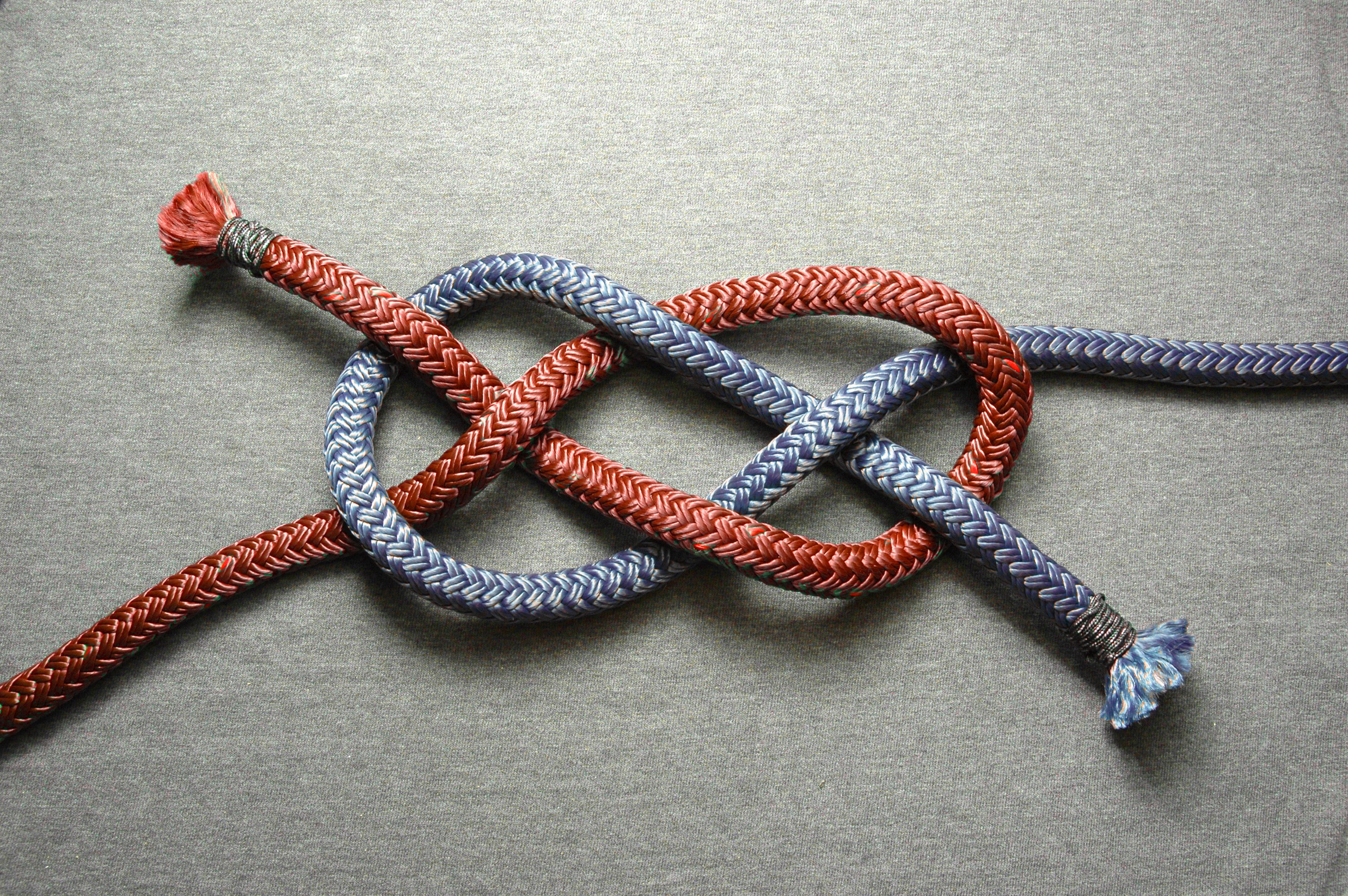 The Diamond knot (or Knife lanyard knot #787) begins with a Carrick bend (ABOK #1439) as shown in this image.